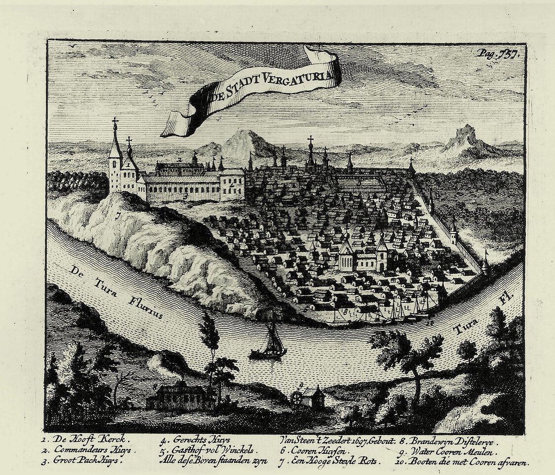 Gravure of Verkhoturye end 17th century (Dutch)